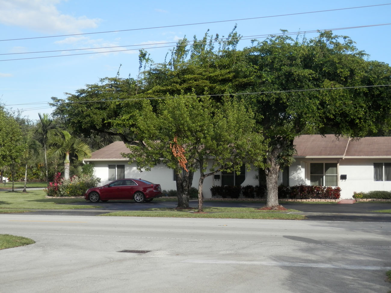 House and driveway at 12201 Southwest 82nd Avenue at 122nd Street, scene of the 1986 FBI Miami shootout. Now in the village limits of Pinecrest, Florida.